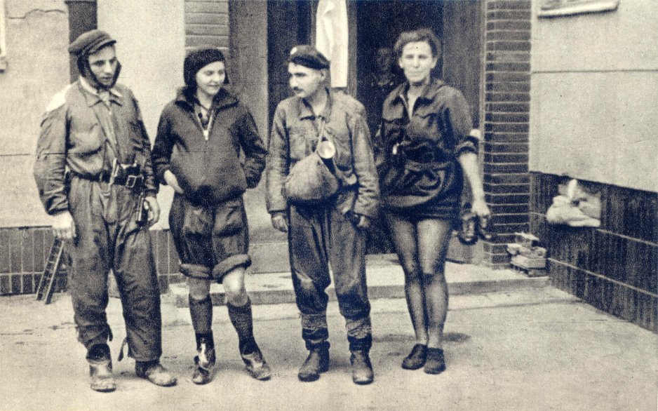 Warsaw Uprising: Sewer guides from after trip from Śródmieście to Mokotów district at Malczewskiego 6 street. From the left: Henryk Ziółkowski "Góral", Barbara Filipowicz-Tomaszewska "Barska", Jerzy Krzysztofowicz "Selim" and Janina Zaborowska "Rena".